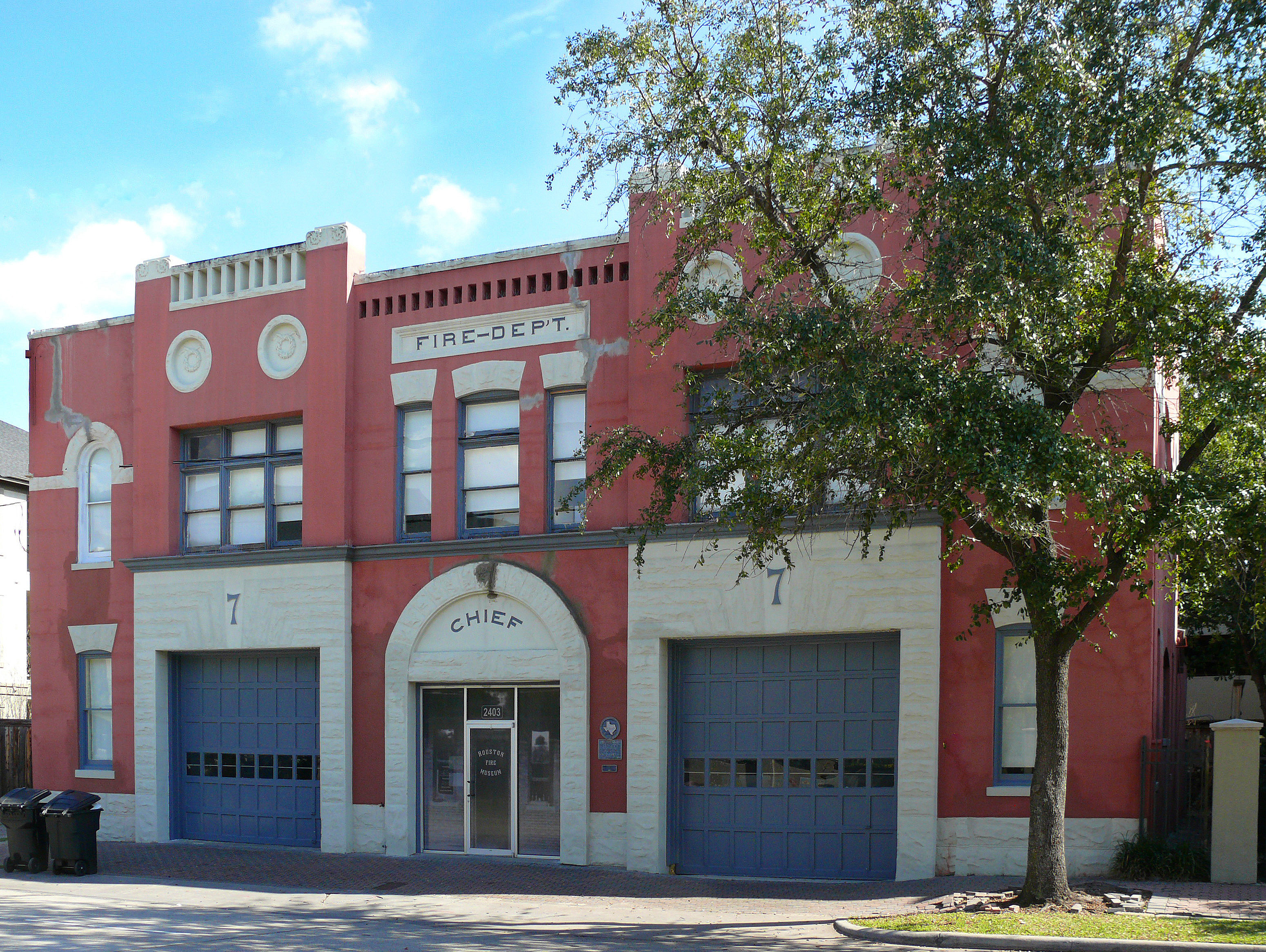 Houston's oldest fire house, this building was designed by Olle J. Lorehn and was completed in January 1899 and opened the next year as the first paid station in Houston. The two-story brick structure features rusticated stone details, a five-bay front with central arched entry flanked by two apparatus bay entries, and unique parapet details. Updated in the 1920s to change from horse-drawn to motorized equipment, the station remained in active service until 1968. Today it serves as the Houston Fire Department Museum